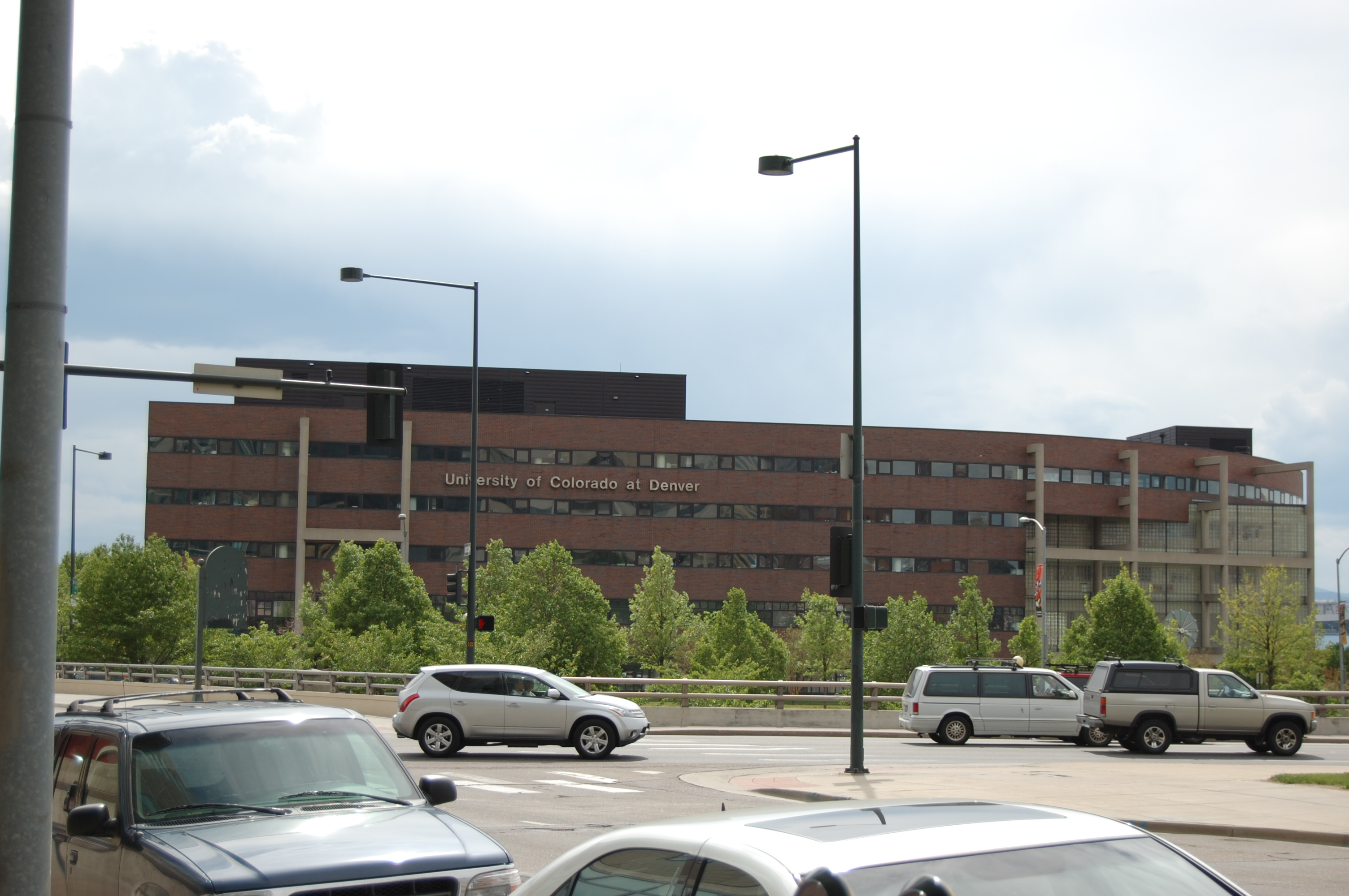 North classroom building on the Downtown Campus, University of Colorado Denver